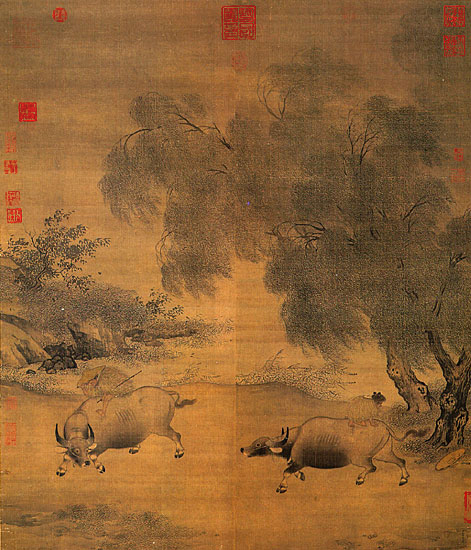 Homeward Oxherds in Wind and Rain (風雨歸牧圖), by Chinese artist Li Di, 12th century, ink and color on silk. 120.7 x 102.8 cm. Located in National Palace Museum, Taibei (臺北 國立故宮博物院). See See: Zhongguo gu dai shu hua jian ding zu (中国古代书画鑑定组). 1997. Zhongguo hui hua quan ji (中国绘画全集). Zhongguo mei shu fen lei quan ji. Beijing: Wen wu chu ban she. Volume 4. Page 5.